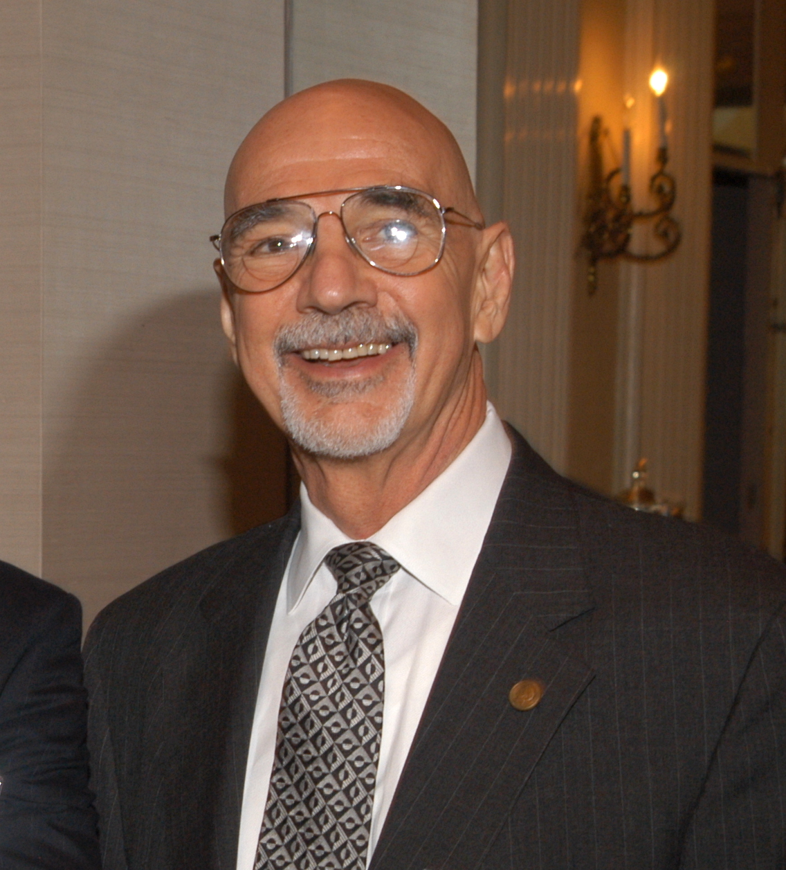 Ron Nessen at the 63rd Annual Peabody Awards luncheon, held at the Waldorf-Astoria Hotel, in New York. PHOTO CREDIT: ANDERS KRUSBERG / PEABODY AWARDS